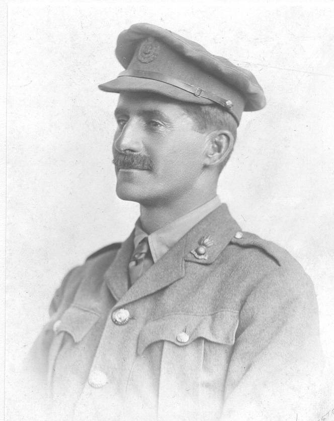 Portrait of Brian Surtees Phillpotts in military uniform.